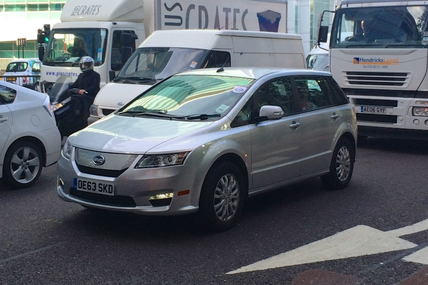 Front view of a BYD e6 private hire on Euston Road, London (September 2014)